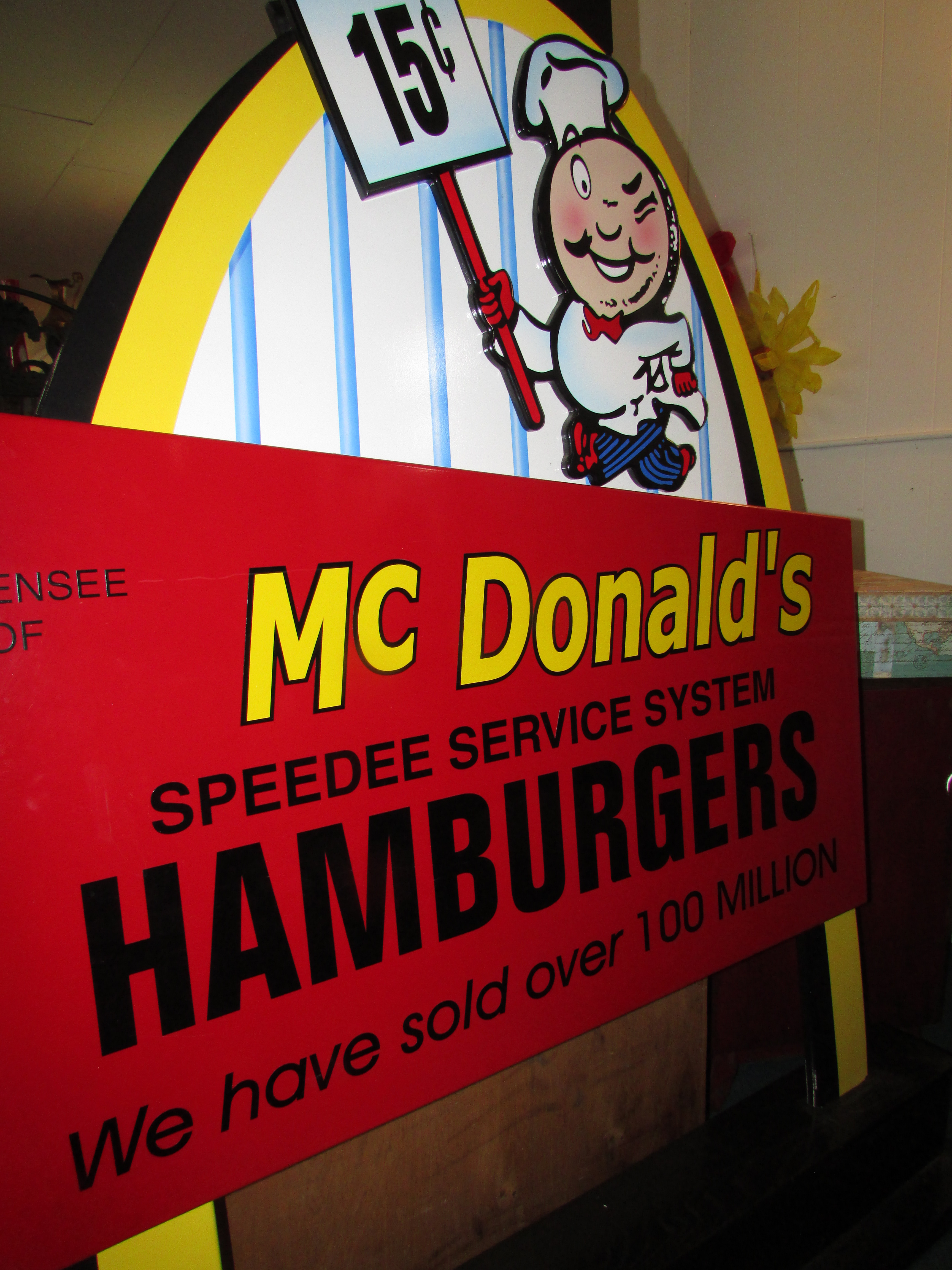 McDonald's Sign circa 1955